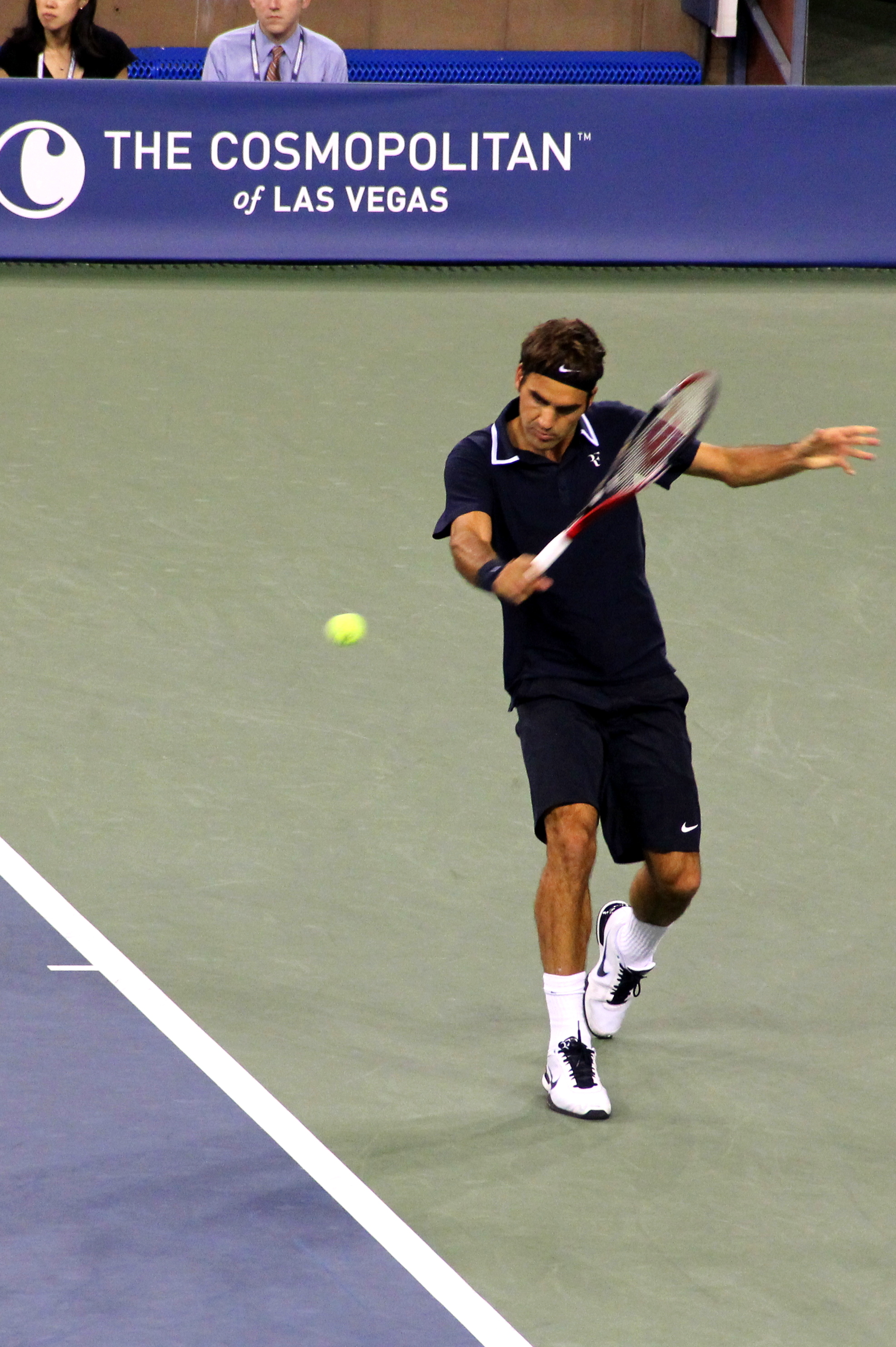 Roger Federer on Wednesday night at the US Open where he won against Robin Soderling. The Cosmopolitan is in New York for the 2010 US Open, inviting attendees and guests to experience signature views from our Overlook and in our custom designed suite with prime-stadium seating. For more information on The Cosmopolitan visit